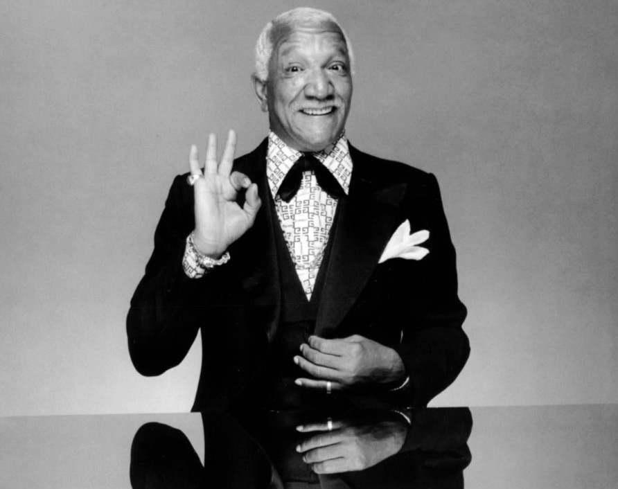 Publicity photo of Redd Foxx from the premiere of his very short-lived television variety program The Redd Foxx Show.